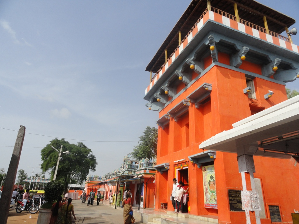 Main entrance of Karmanghat temple